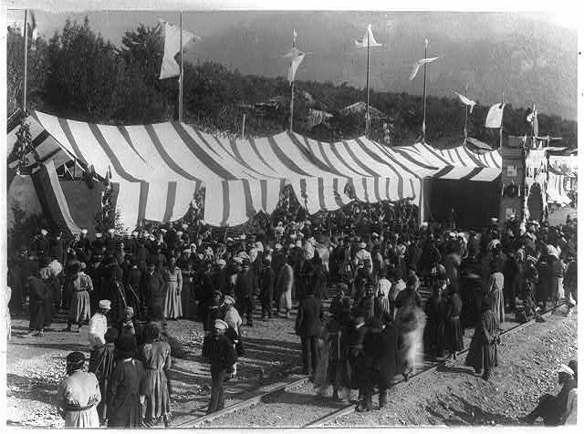 Celebr. opening of Suramski railroad tunnel (Surami tunnel). This record contains unverified data from caption card. Caption card tracings: Ph. Ind.; Russia - Georgia; RR - Constr.